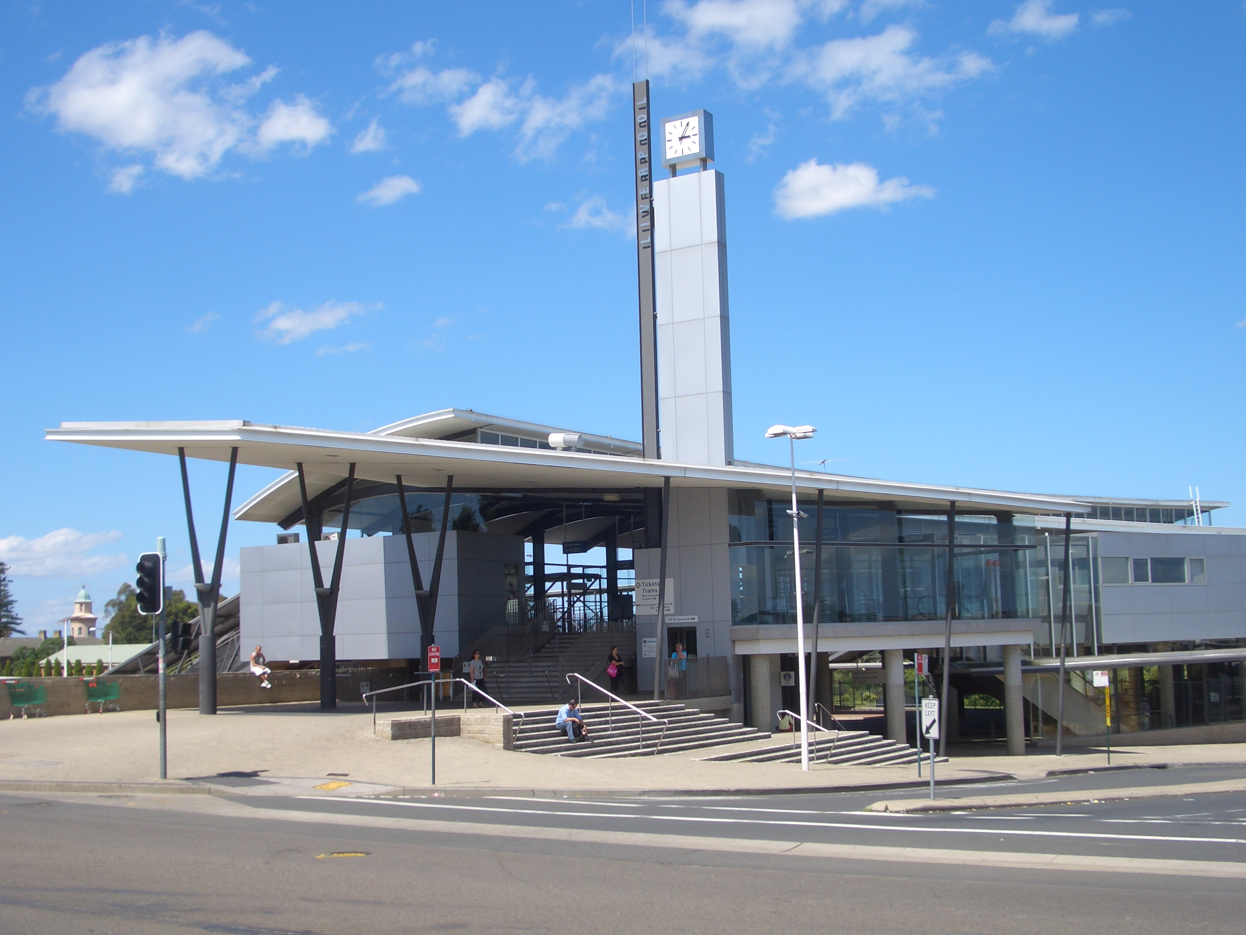 Liverpool railway station, Sydney